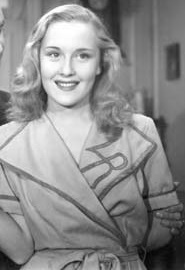 Lilian Valmar- actriz y vedette argentina